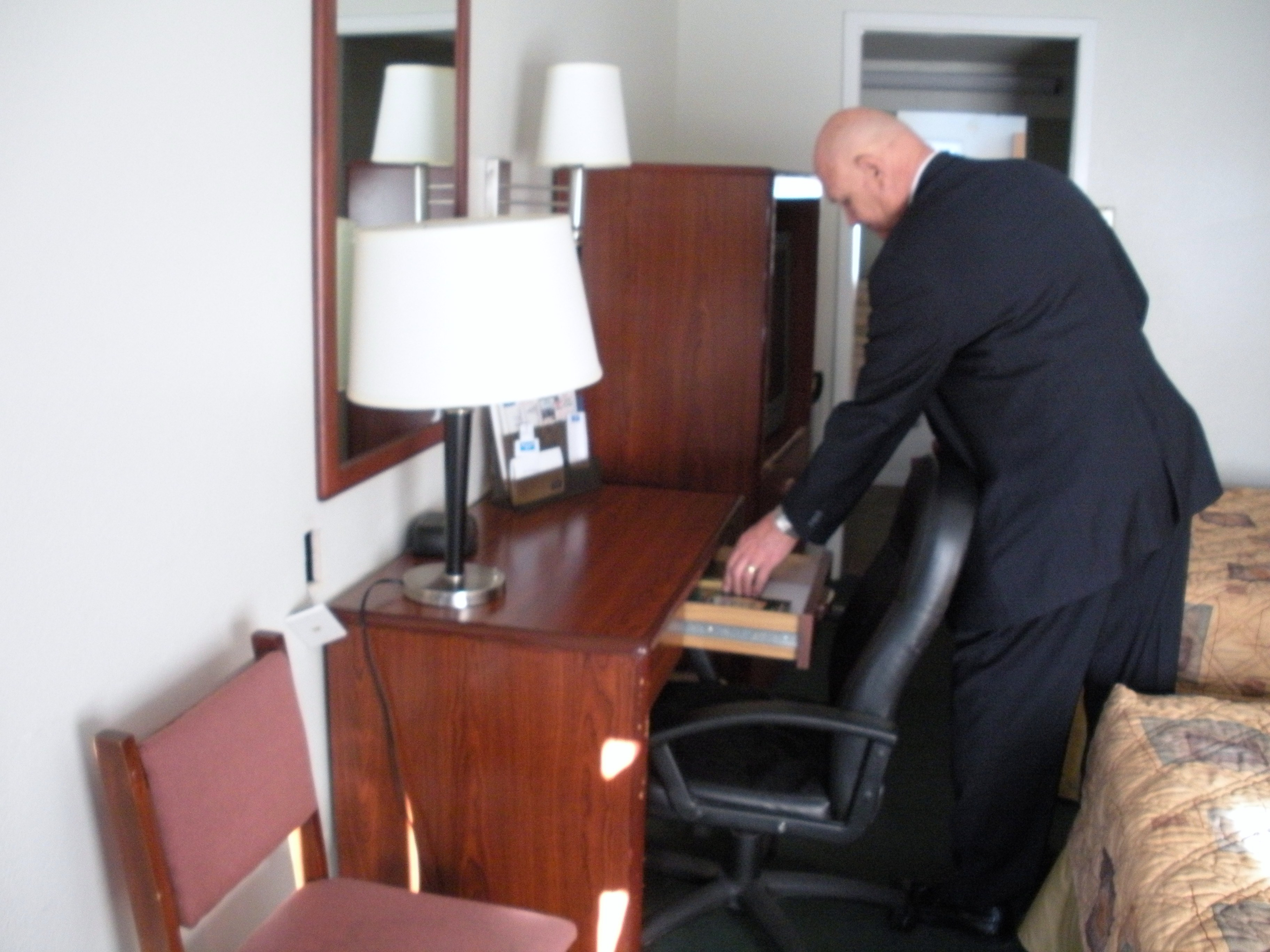 Gideon member distributing scripture in motel room